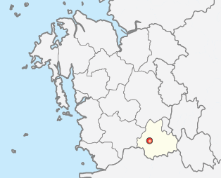 Map of Nonsan in South Korea